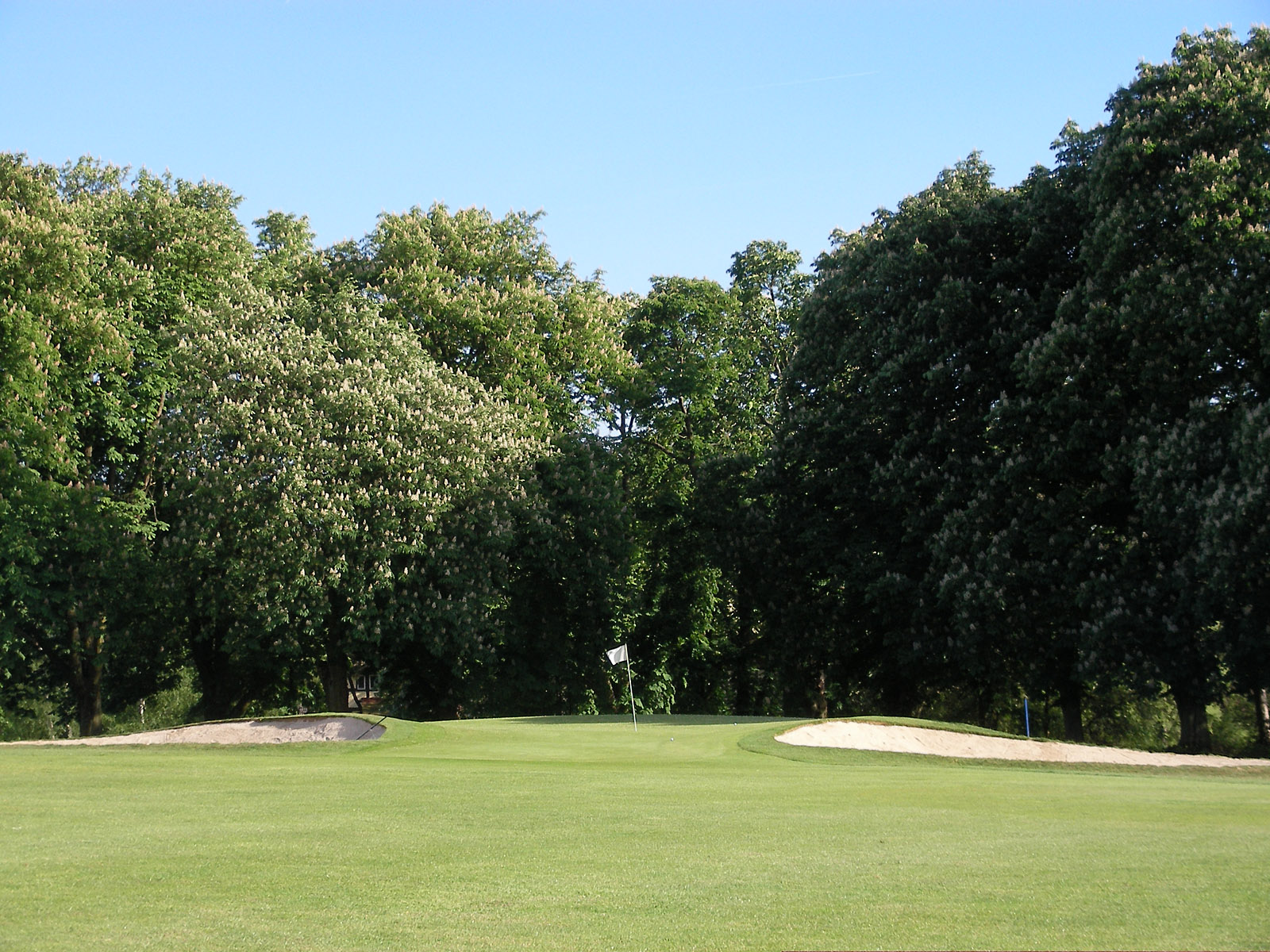 Green 2 of the Golf Club Schloss Braunfels in Hesse, Germany